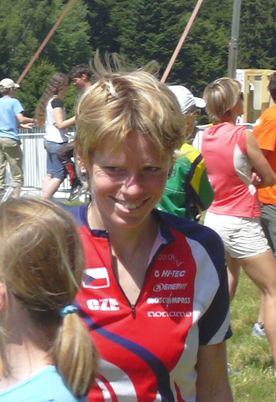 World Orienteering Championships 2008 in Olomouc, Czech Republic. On photo Dana Brožková.